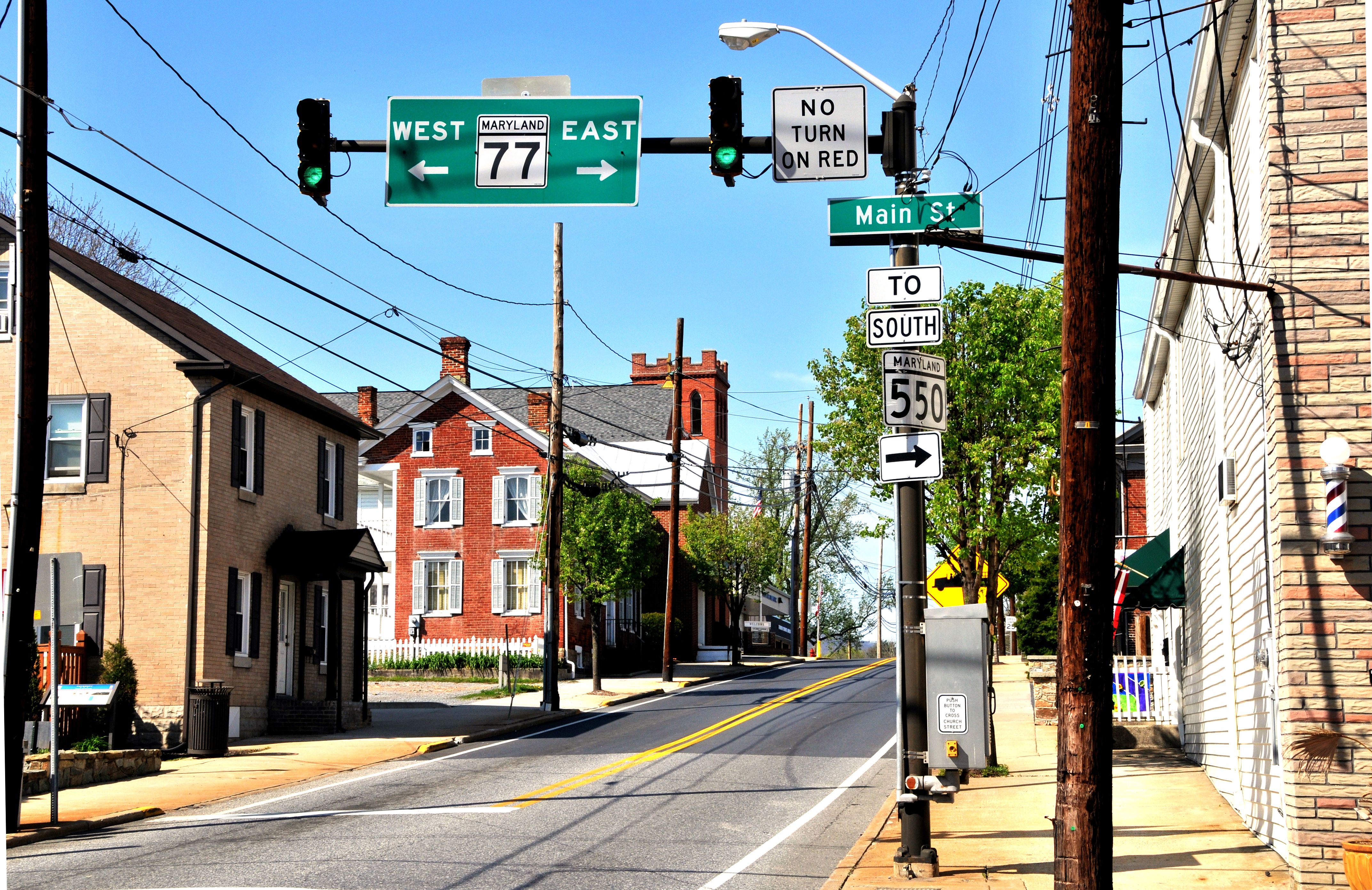 Corner of Main and Water Streets (MD 550 and MD 806) in Downtown Thurmont, Maryland. Camera is looking north on Water Street.